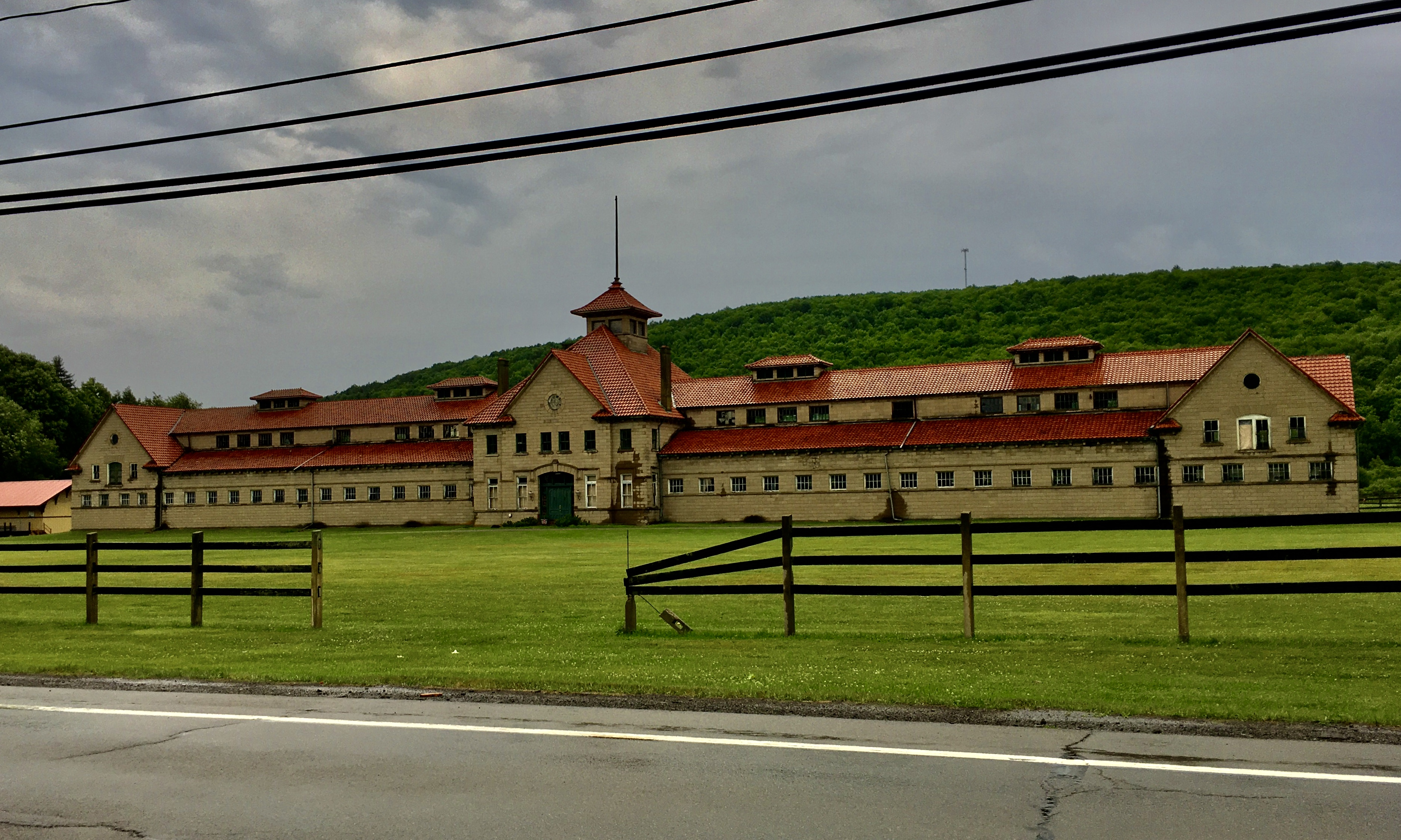 The McKinney Stables of Empire City Farms, 105 South Street, Cuba, New York, July 2020. A work of Buffalo-based architect John H. Coxhead, this enormous horse barn extends 347 feet in length and was constructed of concrete blocks produced on-site via an innovative casting process, accented with concrete trim, and topped with a steeply-pitched hip roof in terra cotta tile lending something of a Mediterranean influence. Notable among its architectural features are the identical gables above the entrance and atop the pavilion at the end of each wing, with prominent cornice returns at the bottom of each eave and an oculus window contained within, as well as the segmental-arched architrave above the main entrance topped with a decorative keystone, and the cupola with an unusual pagoda-like roof that crowns the façade at center. Locally renowned as a breeder of Jersey cattle and novel Shetland ponies, the enormous Empire City Farms was located in the neighboring town of New Hudson and was owned by Joseph McGraw (1812-1892) and his son-in-law William Simpson (1837-1916), the latter of whom was an avid aficionado of horse racing and had the stable seen here built in 1909 to house his prize racehorses after the stables at New Hudson were lost to a devastating fire five years earlier. The 99 acres of land on which the building sits were used for grazing and exercising the horses. After the sale of Empire City Farms a few years after Simpson's death, the building was used for a short period as the home of the printing business owned by son Frederick Simpson (1873-1956), and also for a short period in the 1980s saw use for its originally intended purpose housing Arabian stallions, but has otherwise stood vacant for most of the past century.